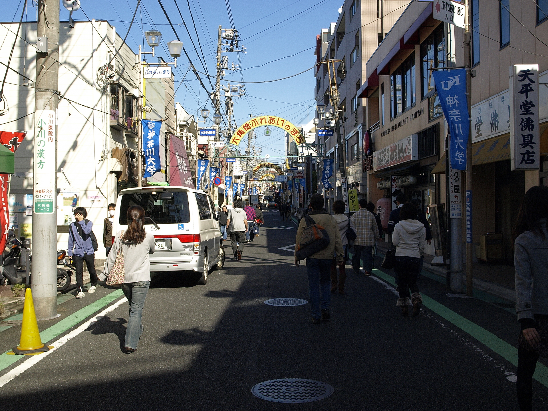 Rokkakubashi shotengai, Yokohama, Japan